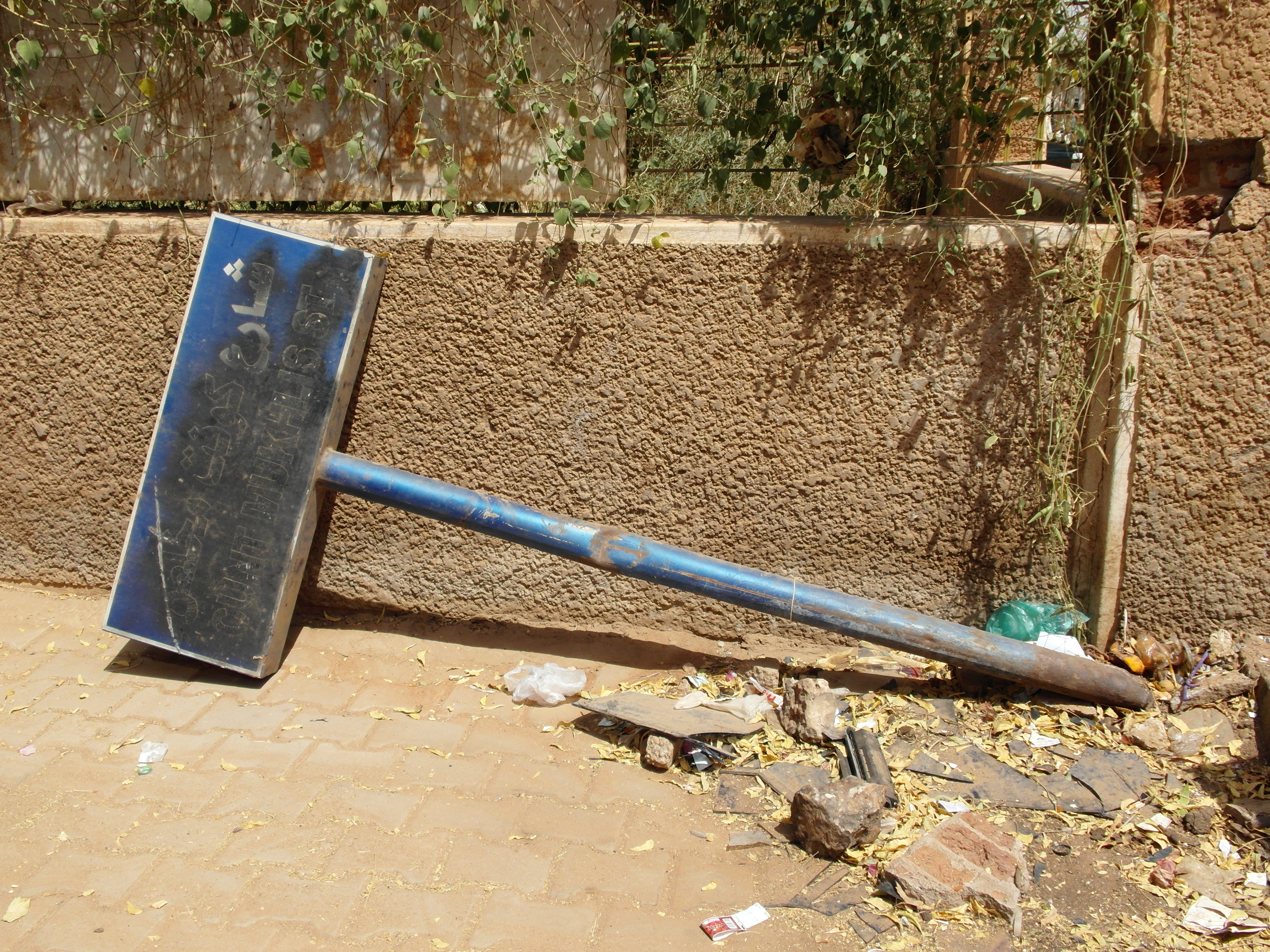 Kontomichlos Street sign in downtown Khartoum, Sudan, named after a famous Greek merchant